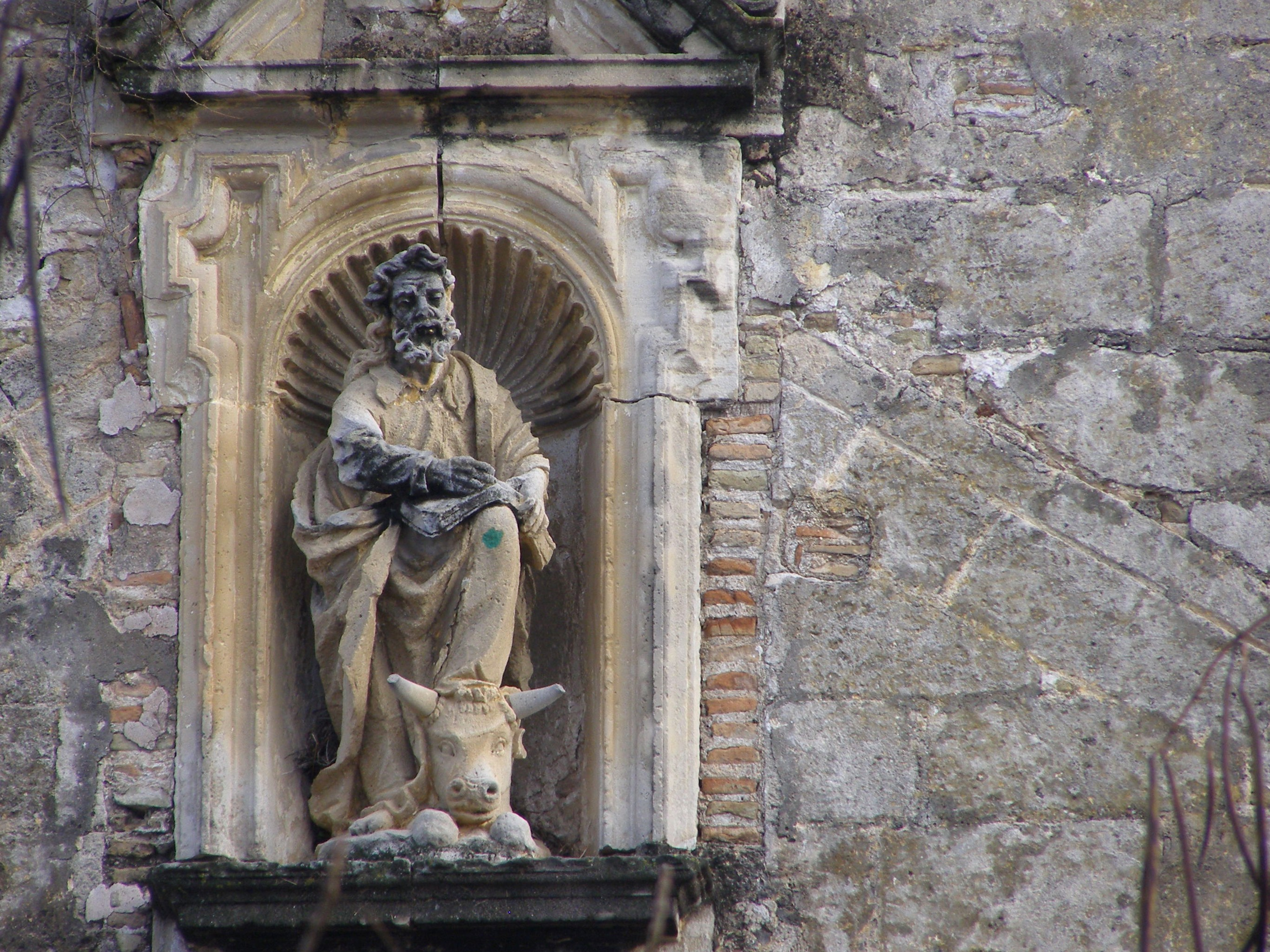 Saint Luke Evangelist Jerez de la Frontera